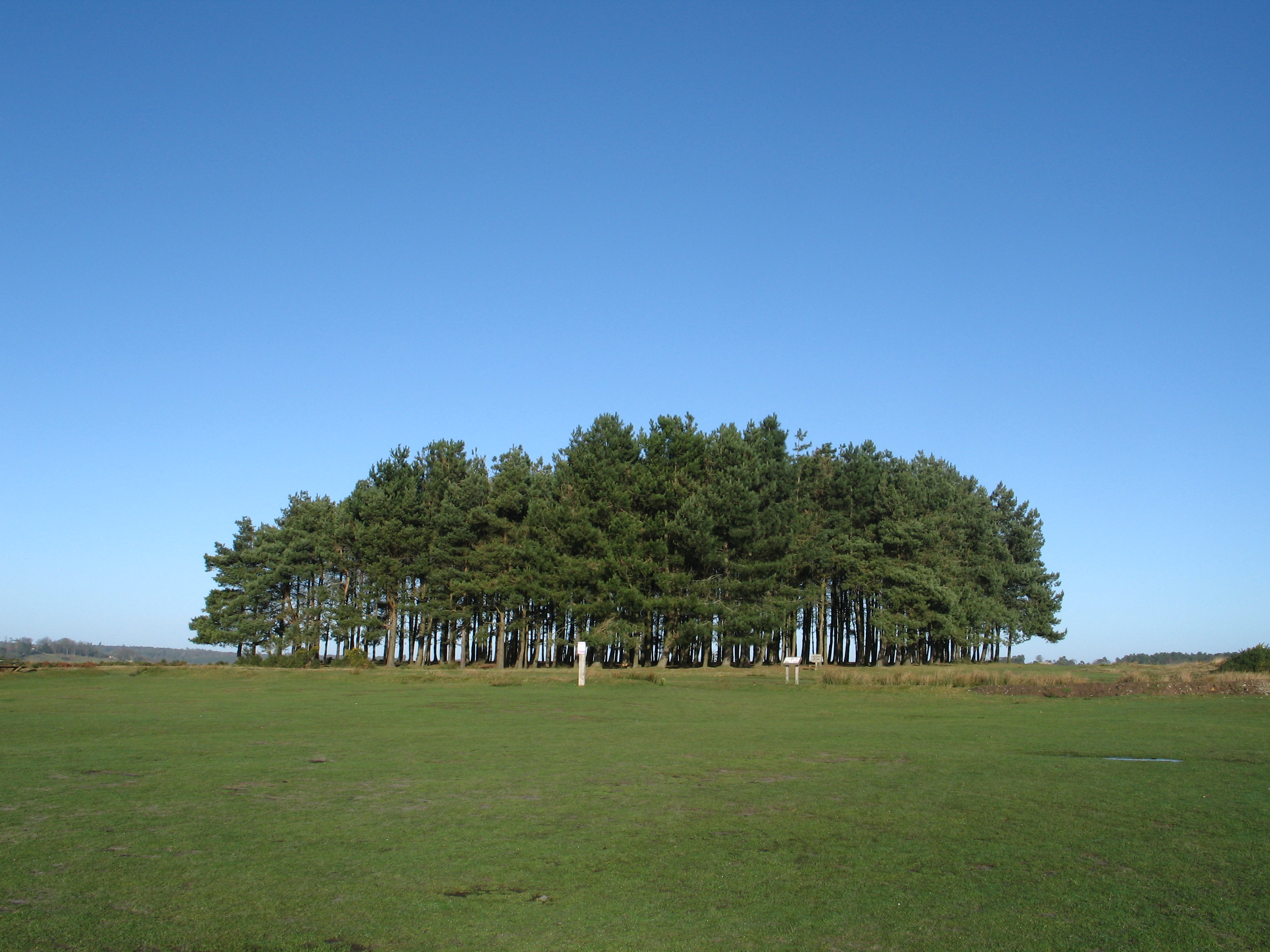 Friends Clump in the Ashdown Forest, Sussex.